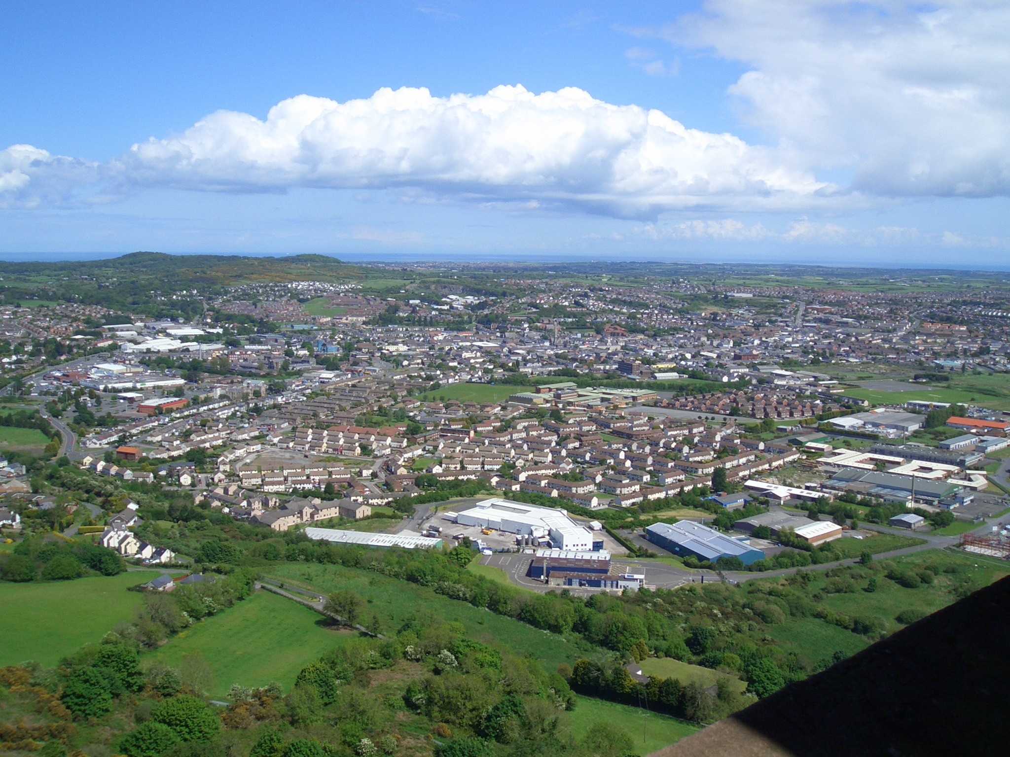 View of Newtownards from Scrabo Tower in County Down, Northern Ireland (Taken with Casio Exilim EXS100 on Sunday 20th May 2007 at 13:00)